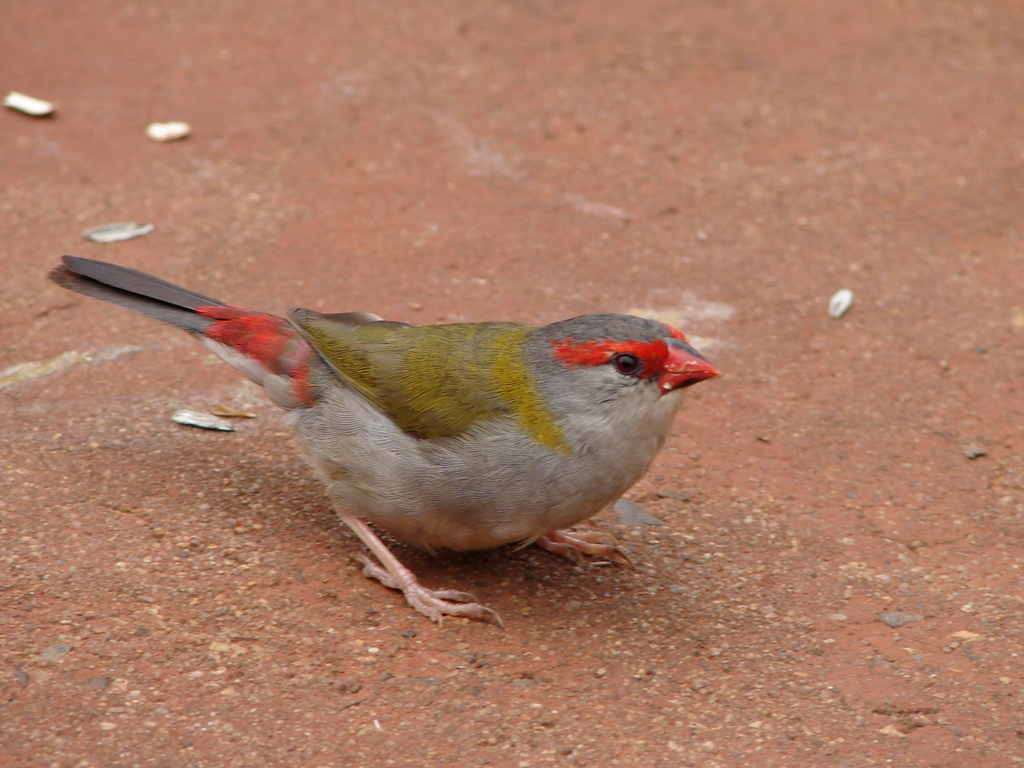 Just next moment after I pressed the shutter - it disappeared. .... Neochmia temporalis syn. Emblema temporalis Australian little bird of finch family (Ploceidae) Common names: Red-Browed Firetail, Redbill, Red-browed Finch. Bunya Mountains National Park, Queensland, Australia